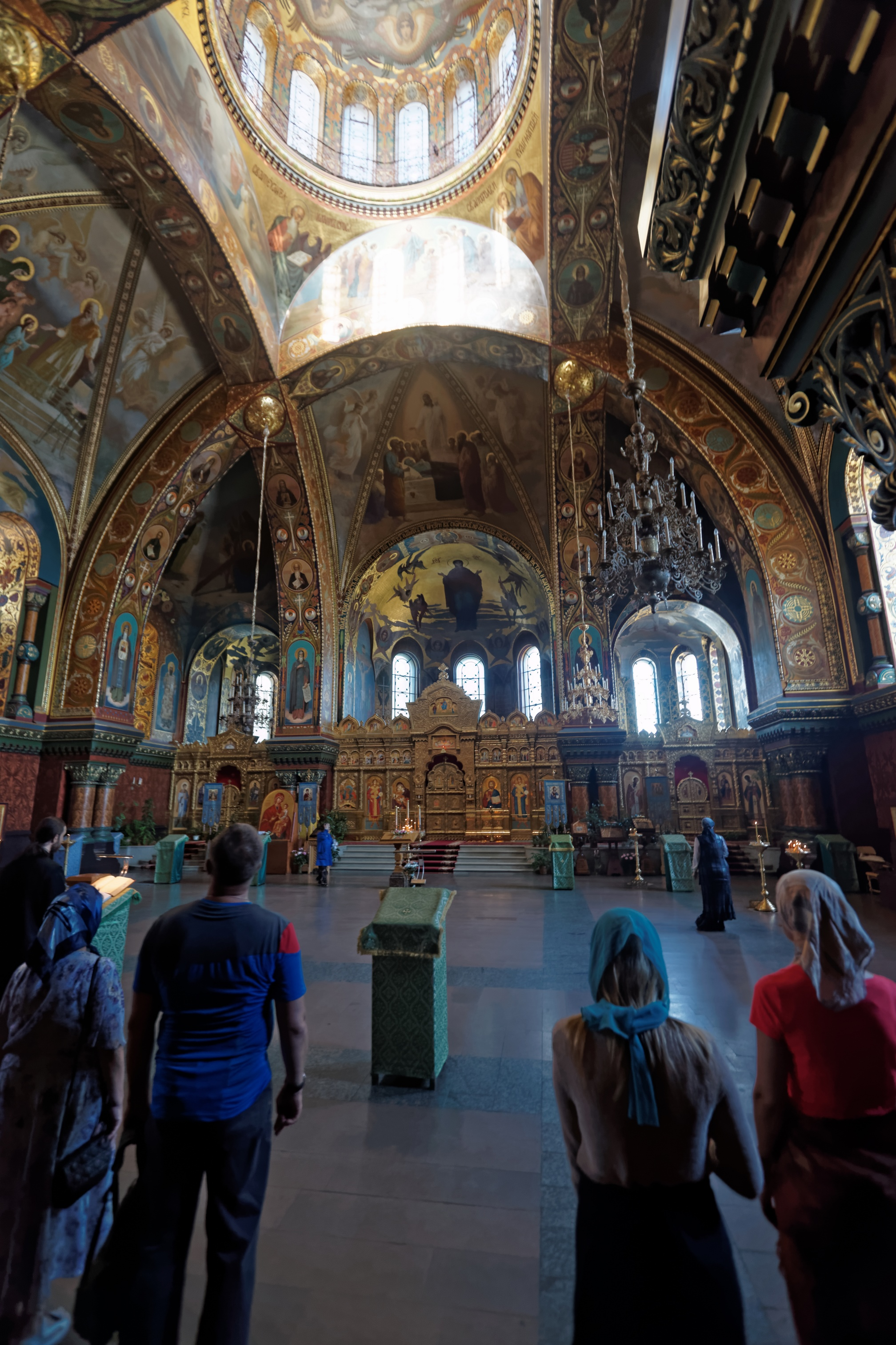 Санкт-Петербург / St Petersburg - Набережная Лейтенанта Шмидта / Naberezhnaya Leytenanta Shmidta - Успенская церковь на Васильевском острове / Assumption Church on Vasilevsky Island 1895-1903 by Vasiliy Antonovich Kosyakov (Василий Антонович Косяков) - Art Nouveau